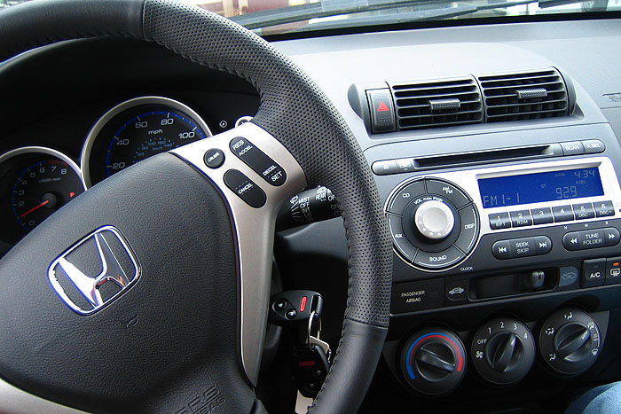 This is the dashboard on the 2007 honda fit Just uploading the rest of my test driving photos.